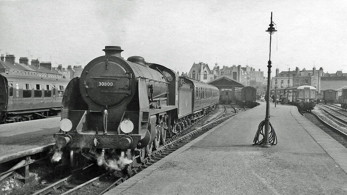 Weymouth (Town) Station, with an express to Waterloo. View SE towards buffer-stops; terminus of main lines from London: ex-LSW from Waterloo via Bournemouth, ex-GW from Paddington via Westbury. The 15.50 to Waterloo is headed by SR Maunsell N15 class 4-6-0 No. 30800 'Sir Meleaus de Lile' (built 9/26, withdrawn 8/61). On the right is a DMU for the GW line.